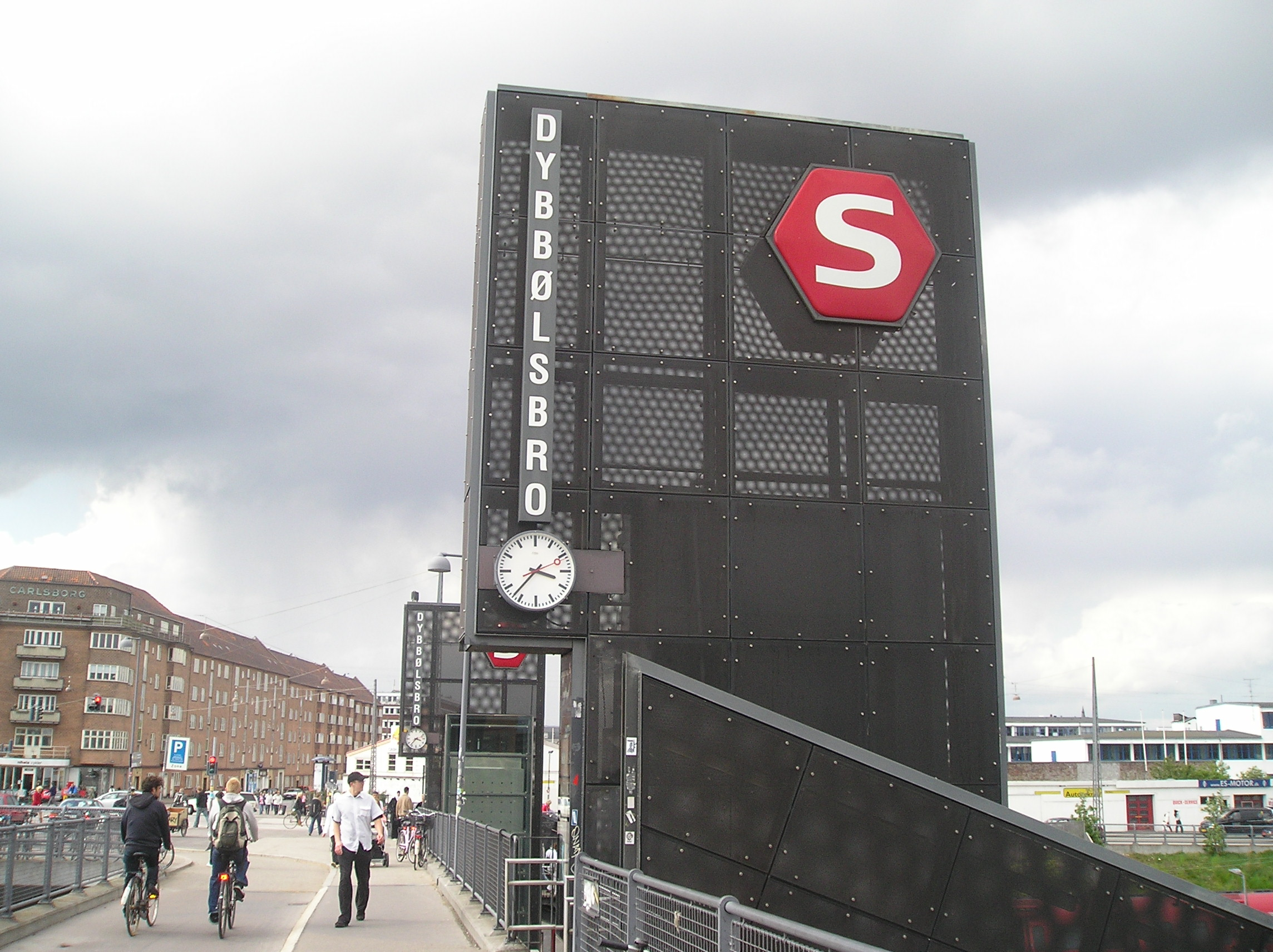 Copenhagen S-train station Dybbølsbro.